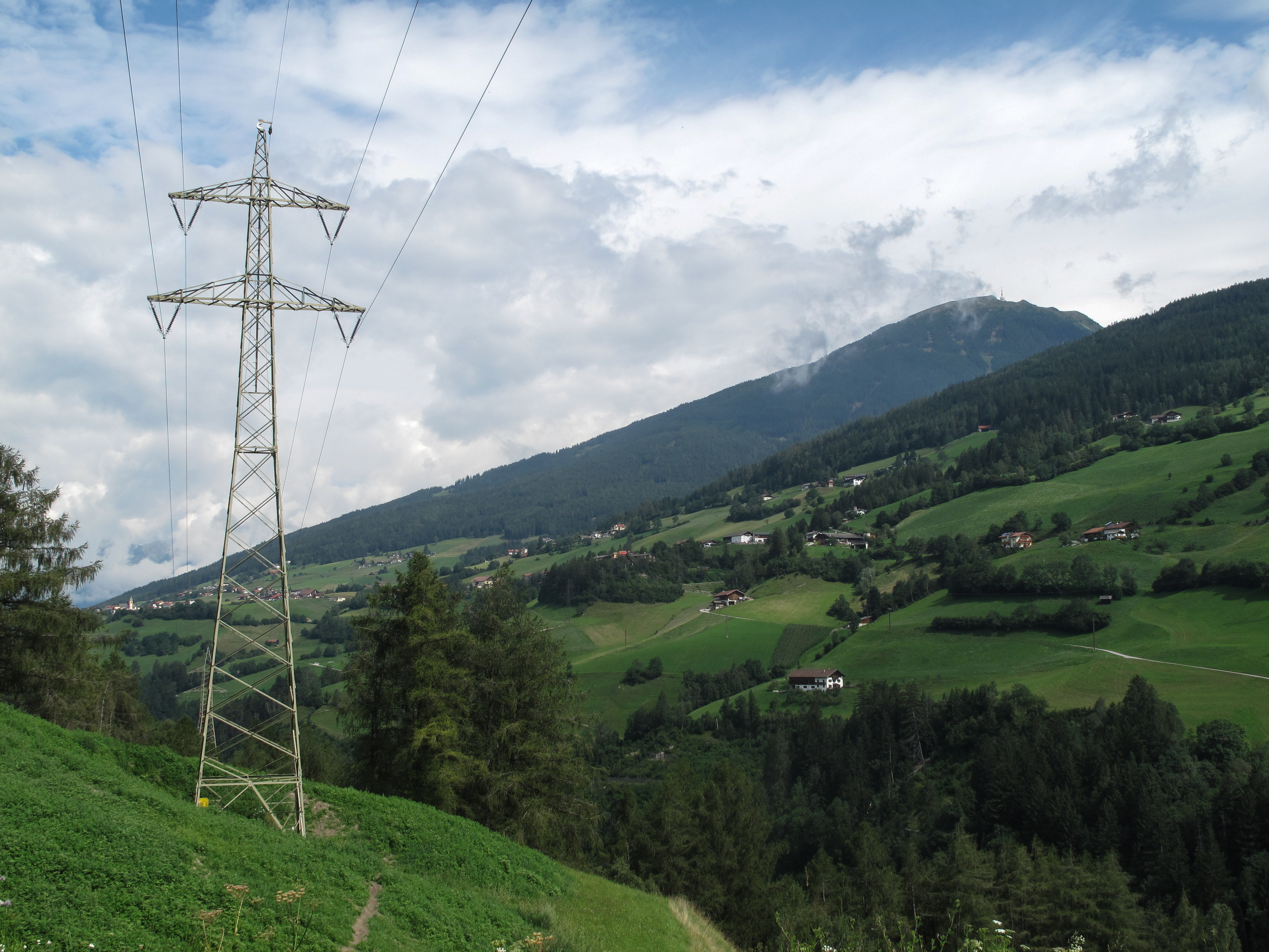 Wiesengrund-Obpfons, panorama from between Matreiwald and Mühlbachl